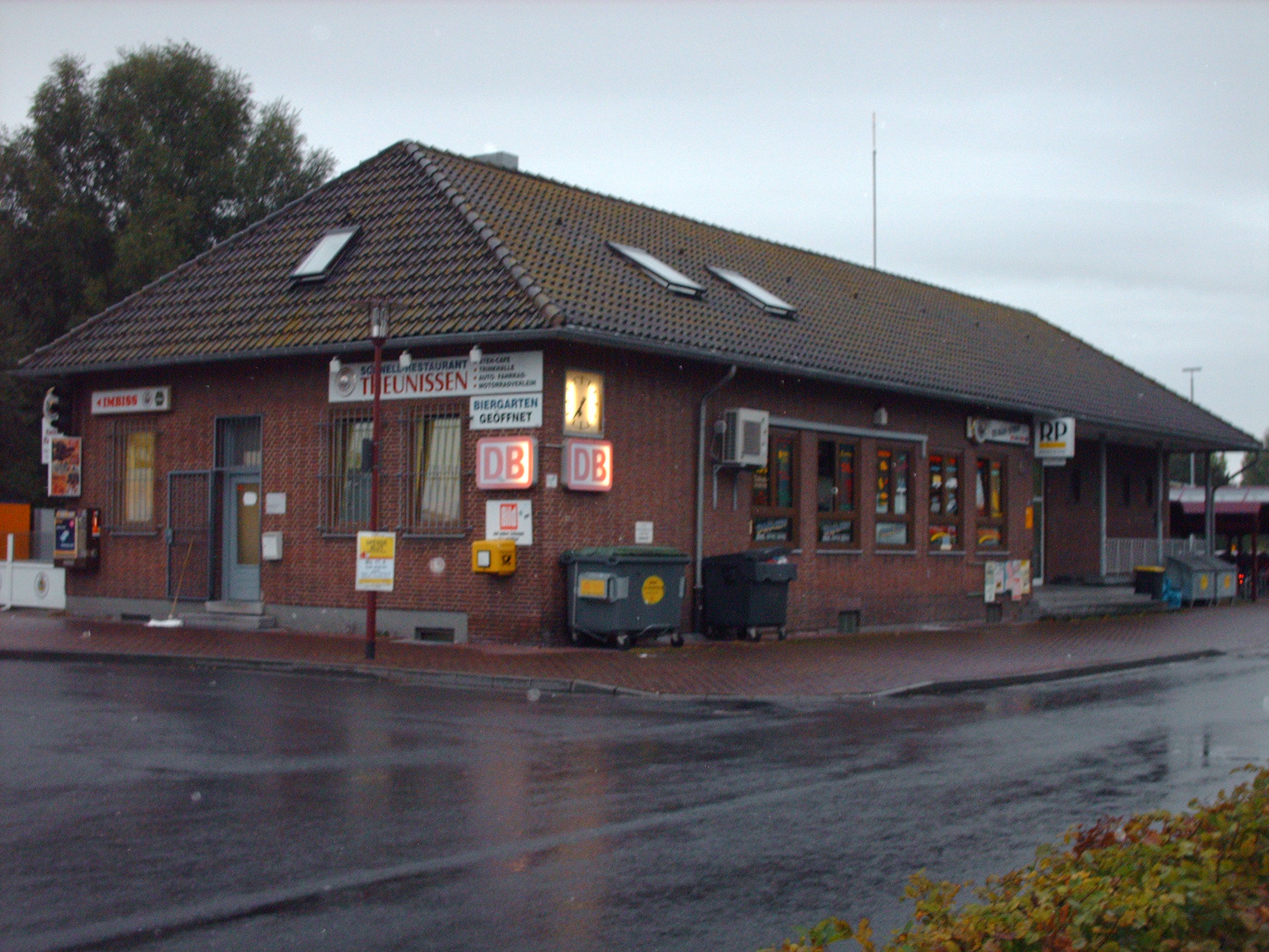 Xanten station, Xanten, Germany check usage